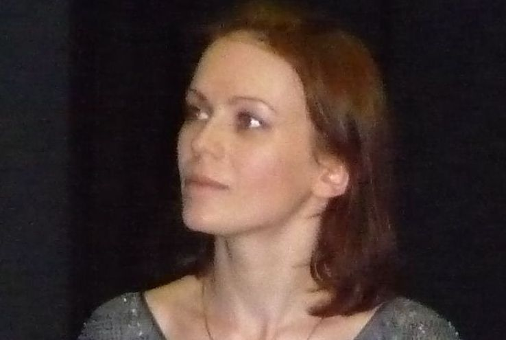 Russian classical pianist Valentina Igoshina at Rickman Auditorium in Arnold, Missouri